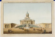 Helsinki Lutheran Cathedral, original design by C. L. Engel